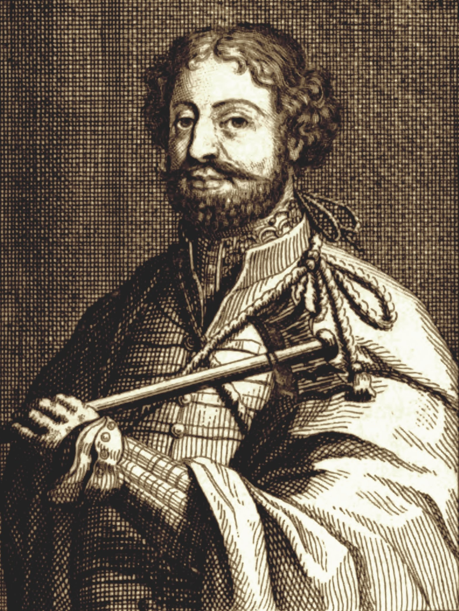 King Heraclius I of Kakheti (tsarevich Nicholas Davidovich)